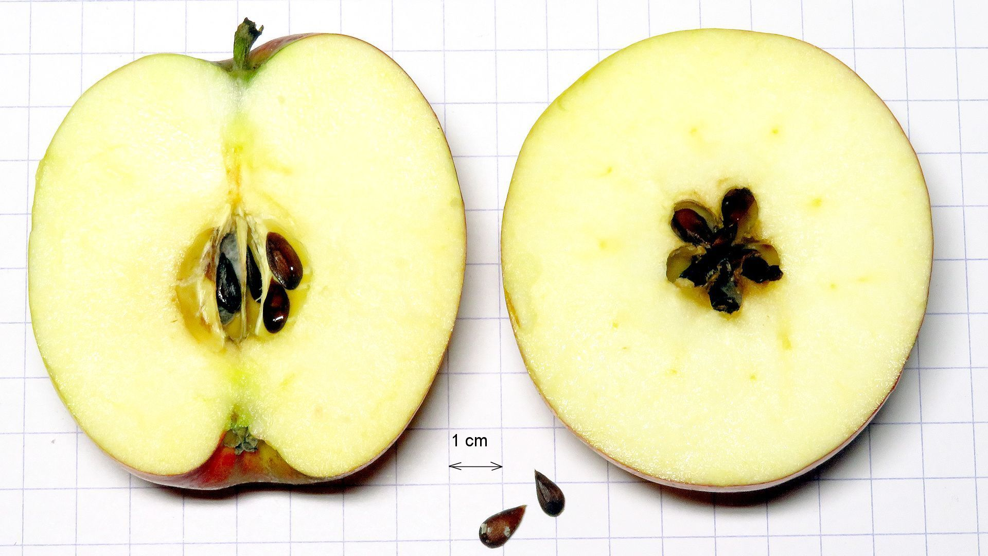 REBELLA axial and transverse sections